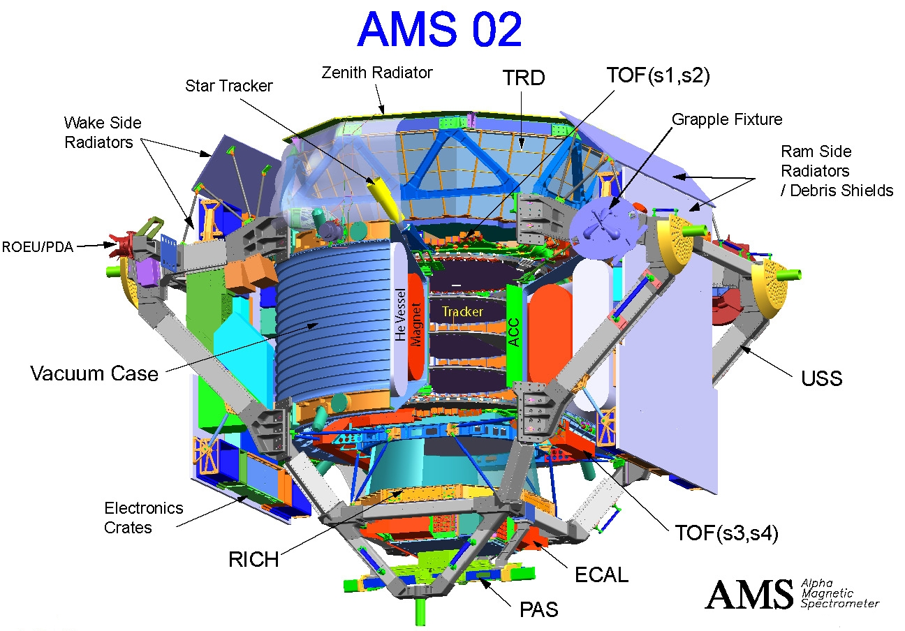 The Alpha Magnetic Spectrometer (AMS-02) is a state-of-the-art particle physics detector constructed, tested and operated by an international team composed of 60 institutes from 16 countries and organized under United States Department of Energy (DOE) sponsorship. The AMS-02 will use the unique environment of space to advance knowledge of the universe and lead to the understanding of the universe's origin by searching for antimatter, dark matter and measuring cosmic rays.